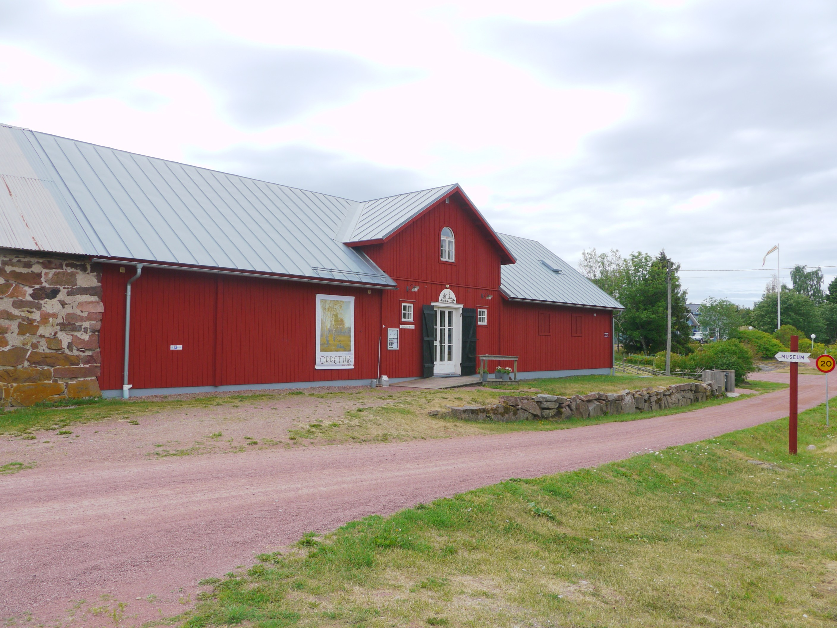 The museum in Onningeby, Åland, exposing artwork of the painter Victor Westerholm and other artists that have participated in his colony.